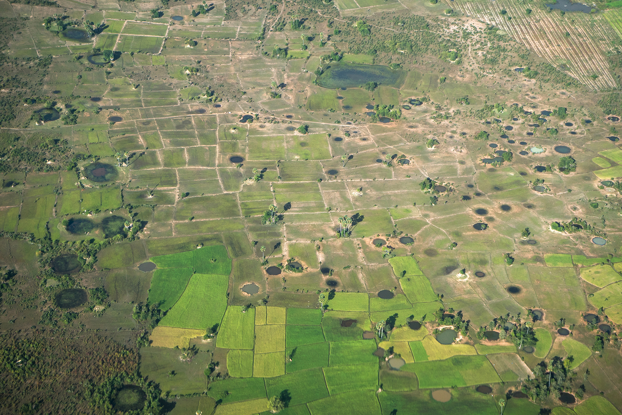 An aerial view of the Bomb crater in Kandal Province, Cambodia. In the 1970s, the US government ordered bombings in Cambodia and Vietnam.